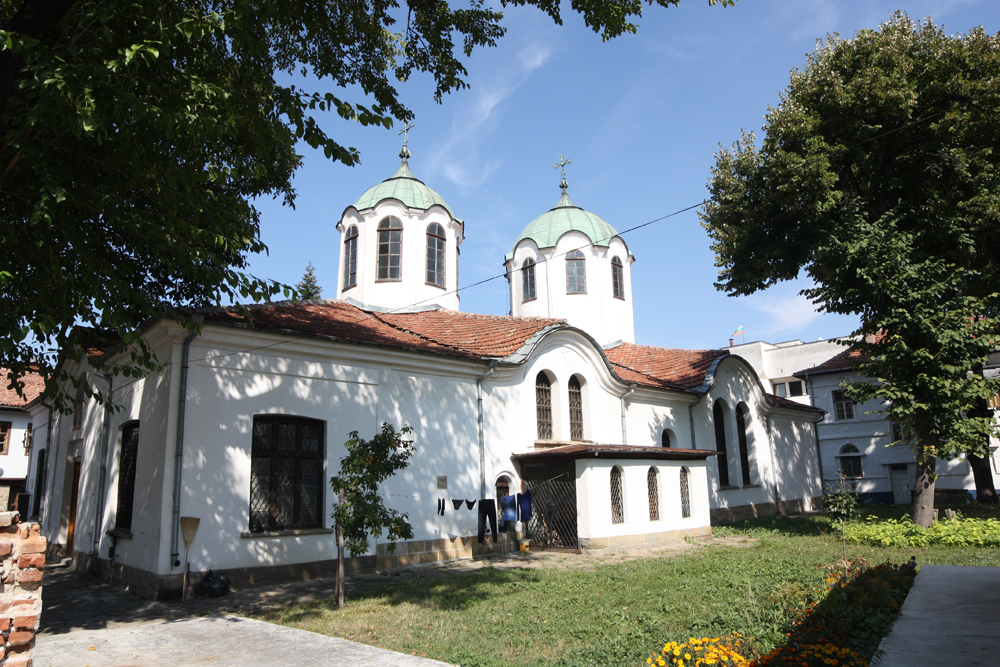 St. Ilia church of Sevlievo